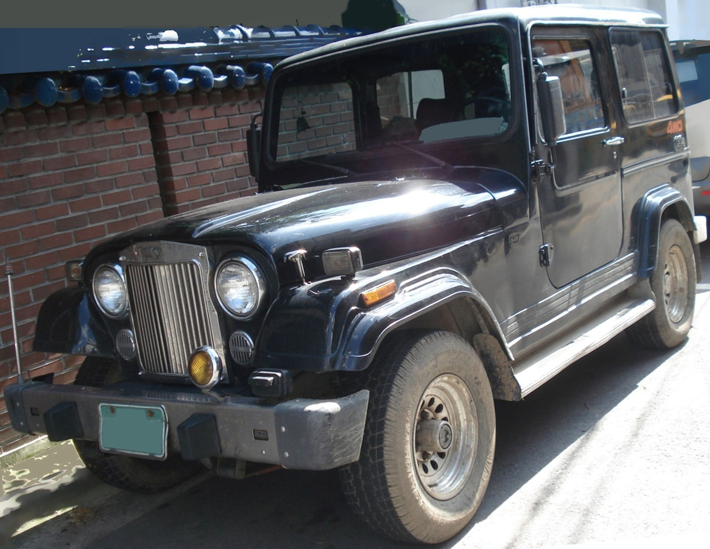 SsangYong Korando